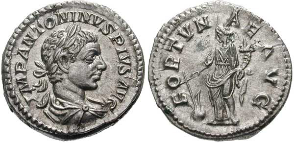 Elagabalus Denarius. IMP ANTONINVS PIVS AVG, laureate and draped bust right / FORTVNAE AVG, Fortuna standing left holding cornucopiae & rudder on globe. RSC 48a.